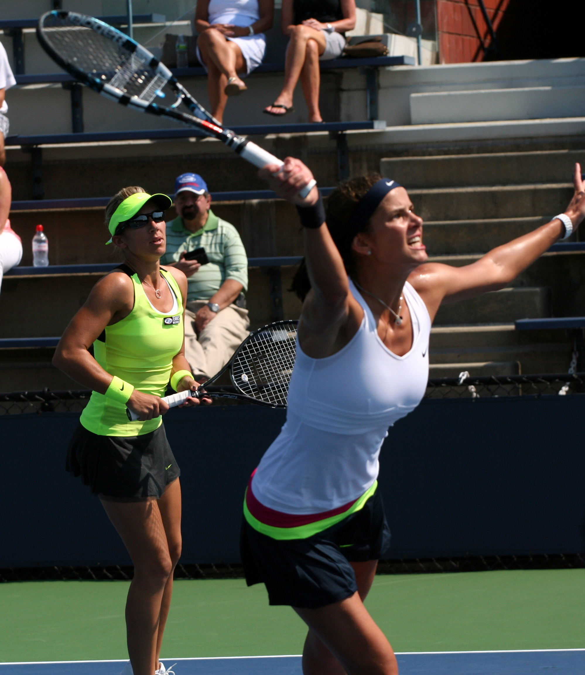 Květa Peschke and Julia Görges in action at the 2012 US Open – Women's Doubles